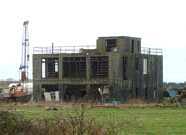 Andreas Airfield - Isle of Man. The remains of the WW2 RAF control tower at Andreas, established as a fighter base to protect Liverpool, Belfast and Glasgow.